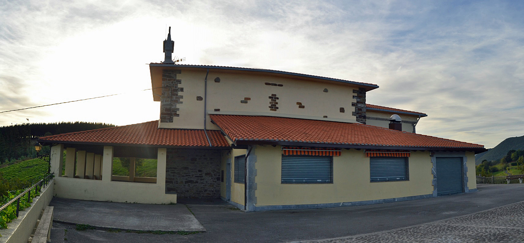 Kalbaixoa. Mutriku, Basque Country.